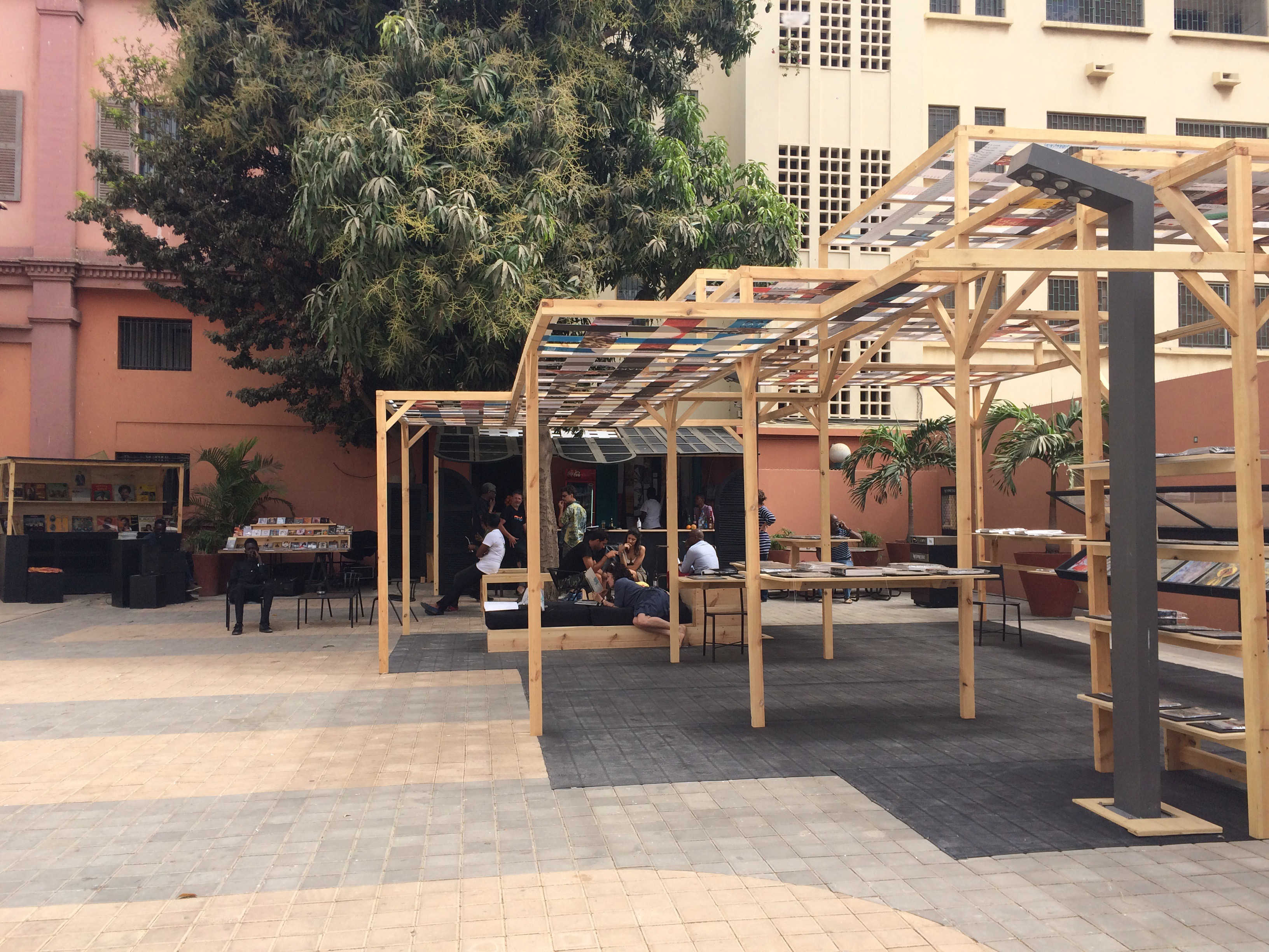 The Dakar Biennale of contemporary African art, May 2016.